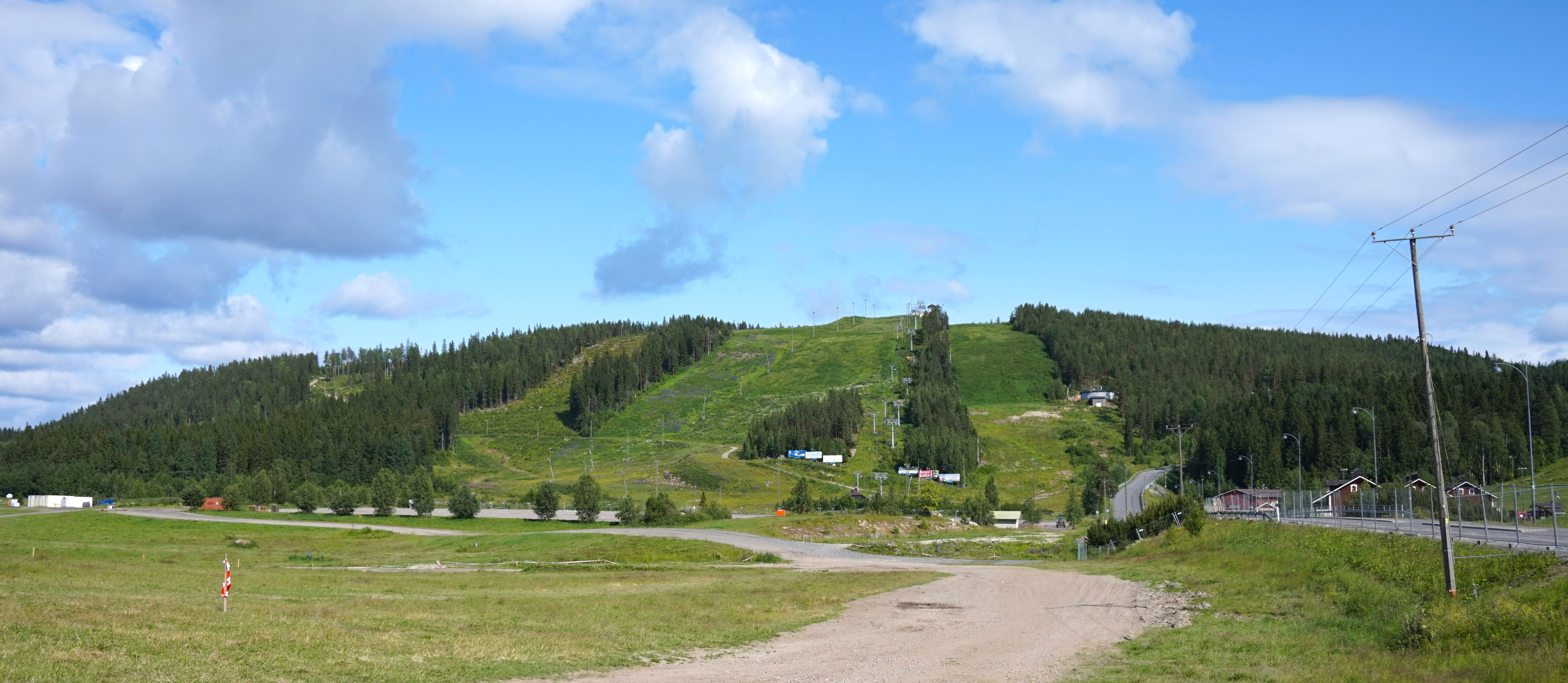 Himos, Jämsä.This photograph was taken with a Sony ILCE-5000